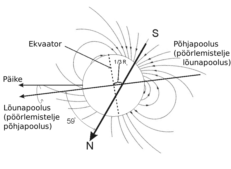 This image depicts the magnetic field of Uranus as seen by Voyager 2 in 1986. The image of dipole from Wikimedia Commons was used. This picture was created for Uranus article.